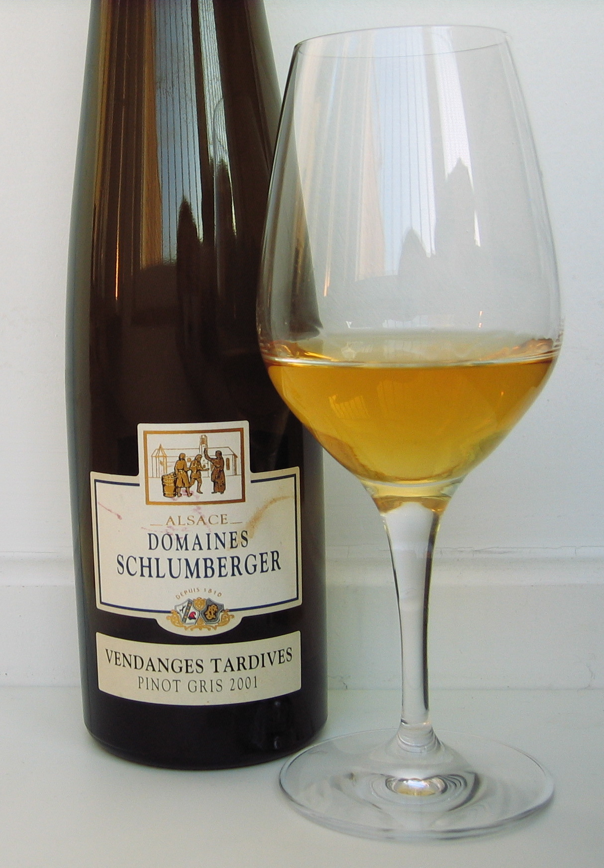 Domaines Schlumberger Pinot Gris Vendanges Tardives 2001, a late harvest wine from Alsace